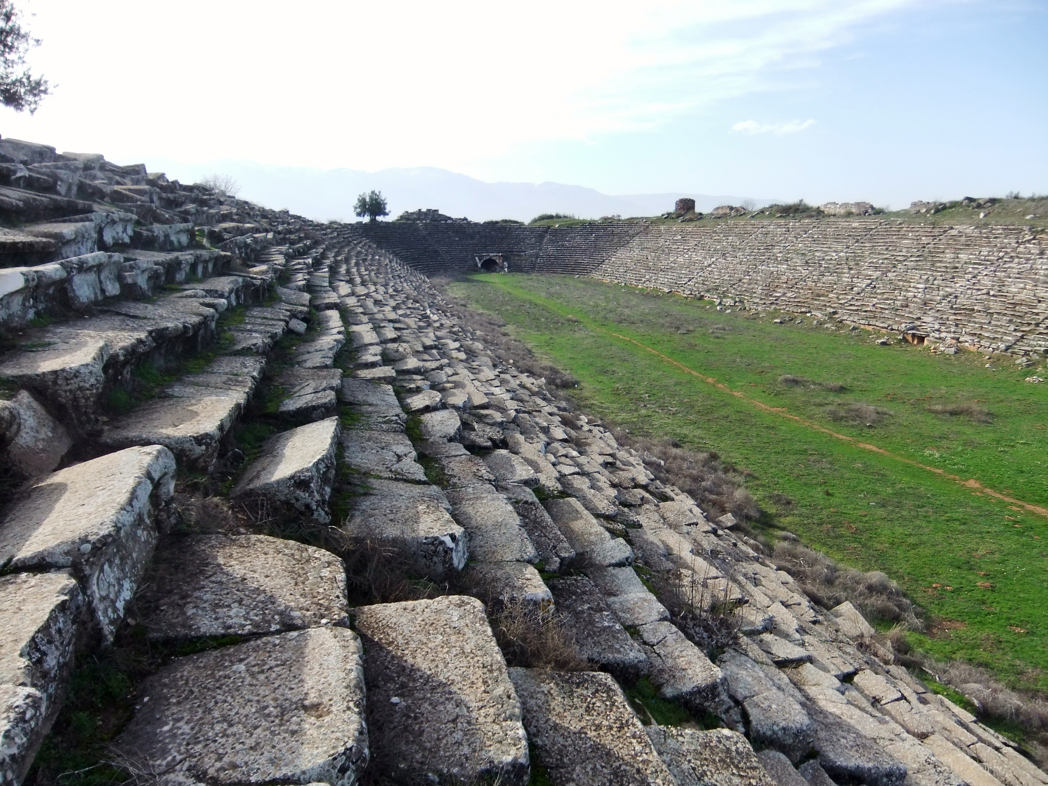 Shot in former West-Armenia